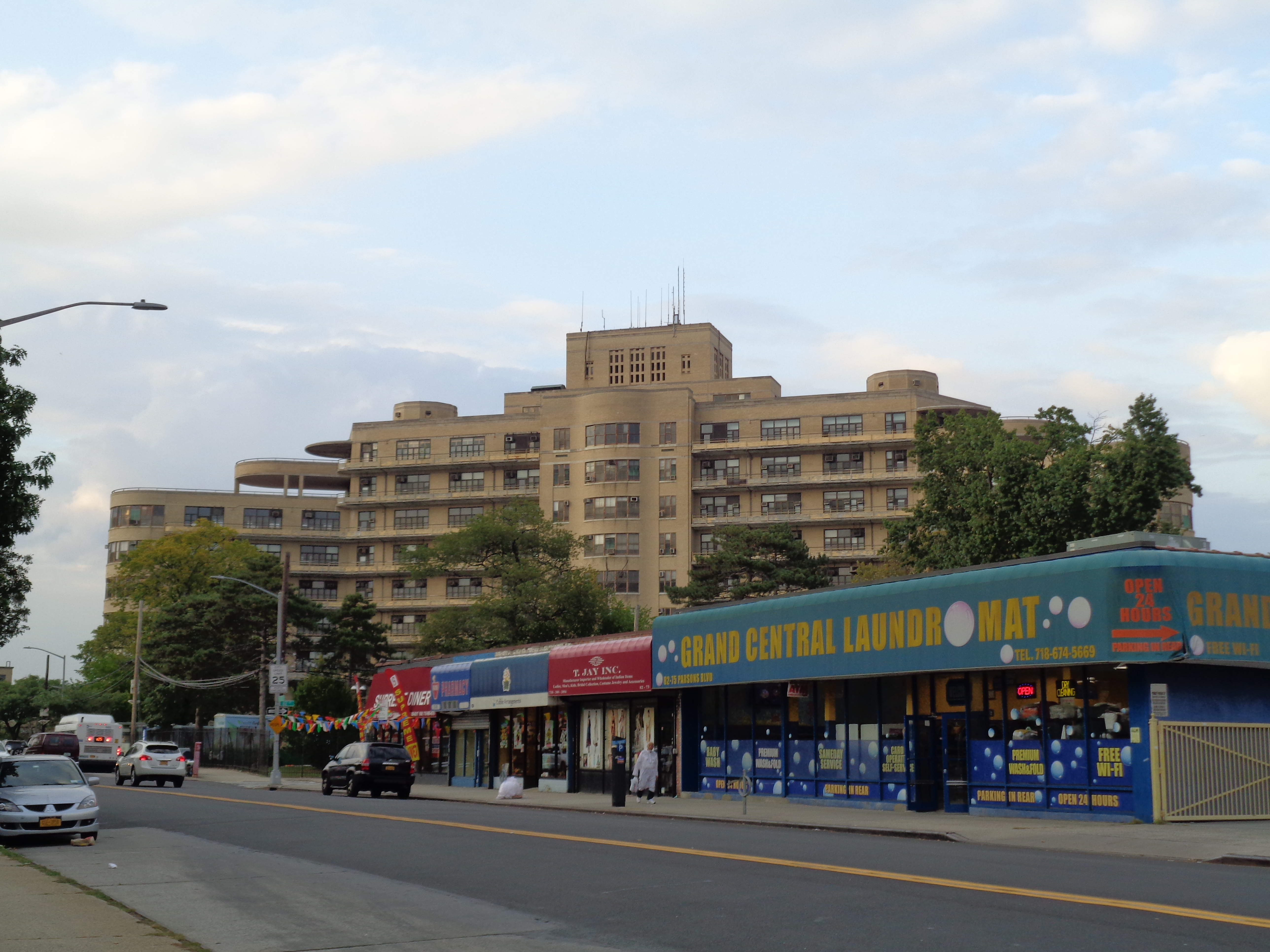 Looking at the former Triboro Hospital at Queens Hospital Center, from Parsons Boulevard and the Grand Central Parkway in Hillcrest, Queens. The hospital towers over the rest of the neighborhood. Also note the "Grand Central Laundromat", likely a former Clean Rite location.